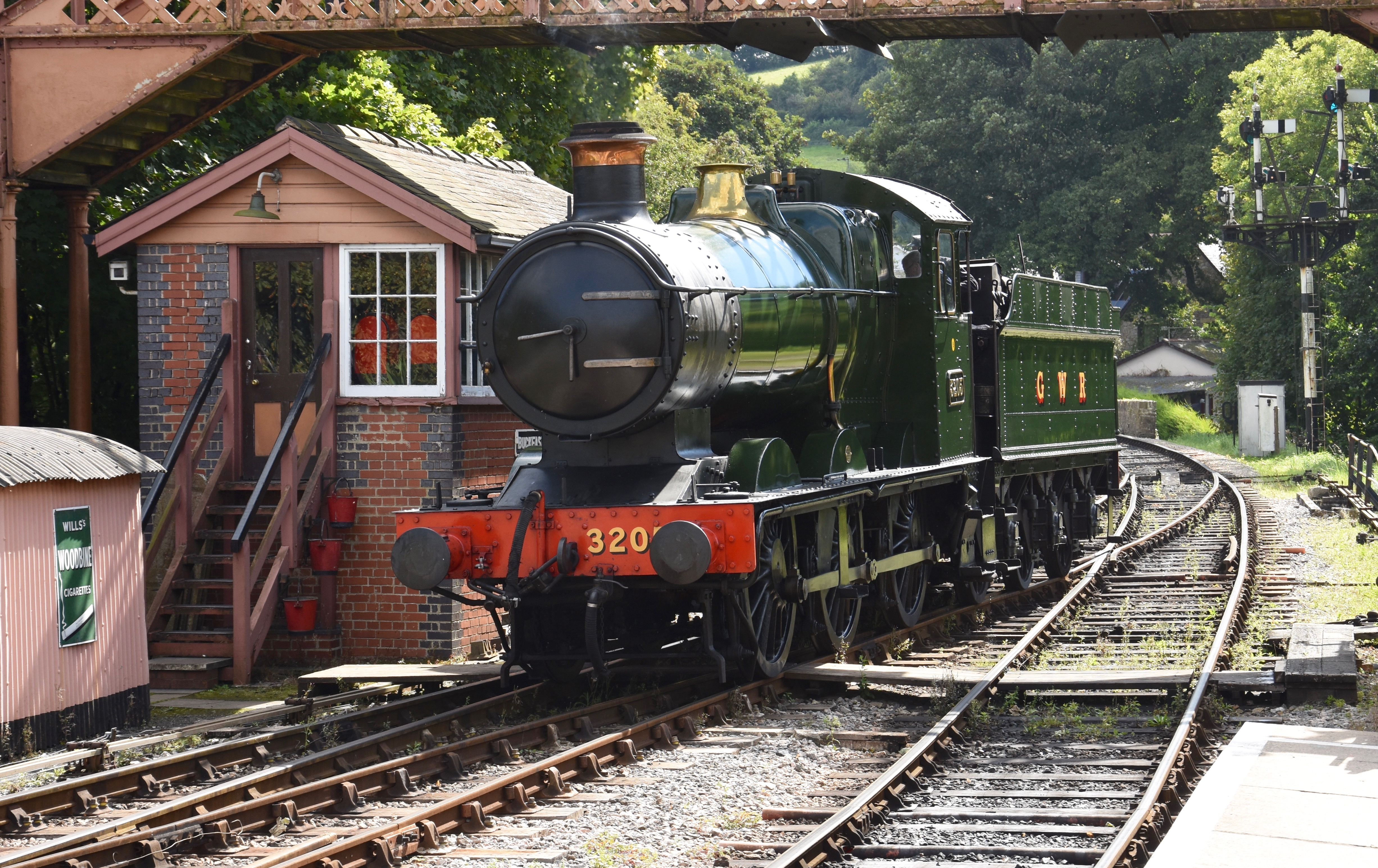 3205 was built by the GWR in Swindon in 1946 and is the sole survivor of the 2251 class of locomotives designed by C. B. Collett. Seen here at Buckfastleigh station on the South Devon line.